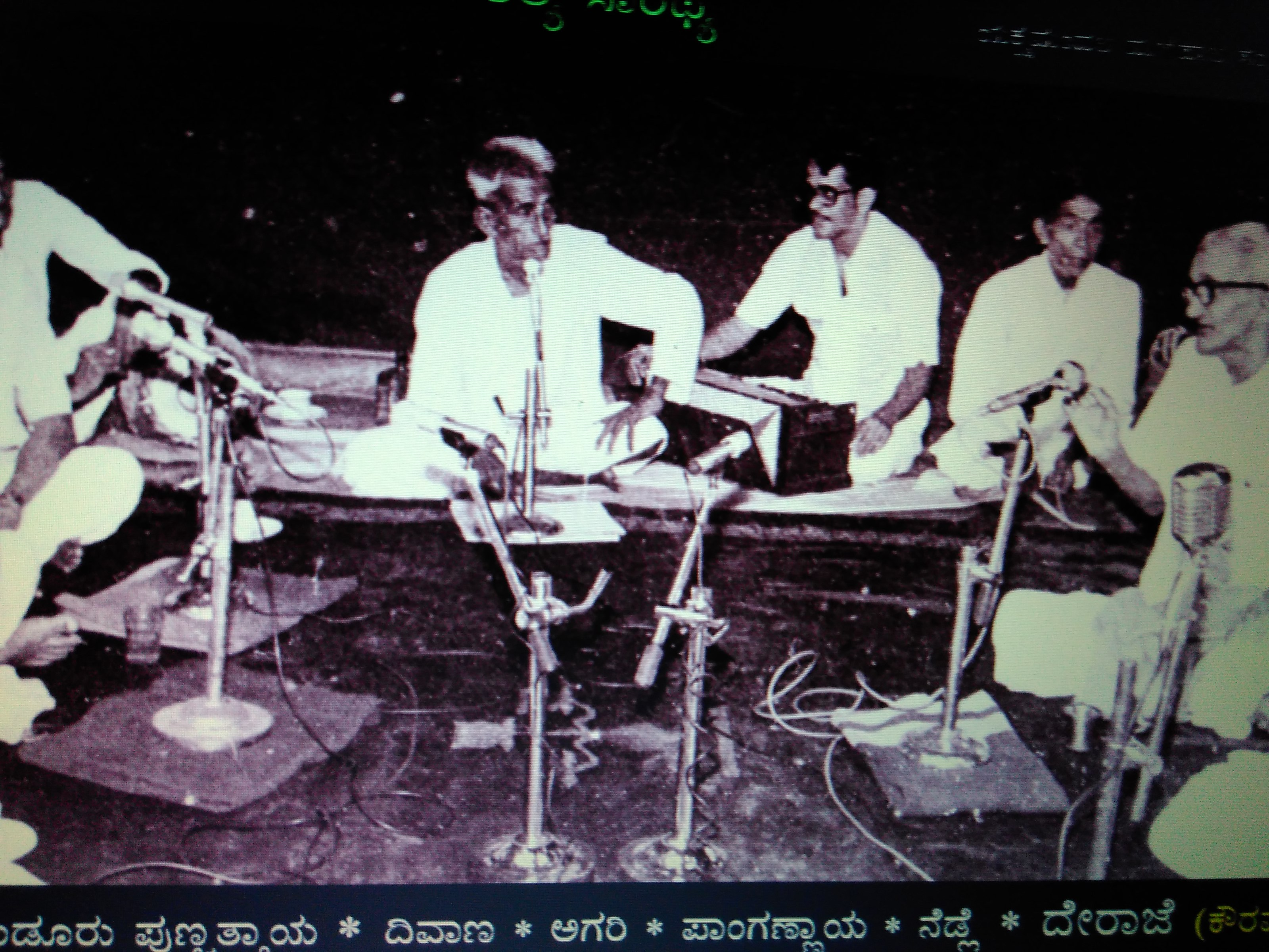 ಶಲ್ಯ ಸಾರಥ್ಯ